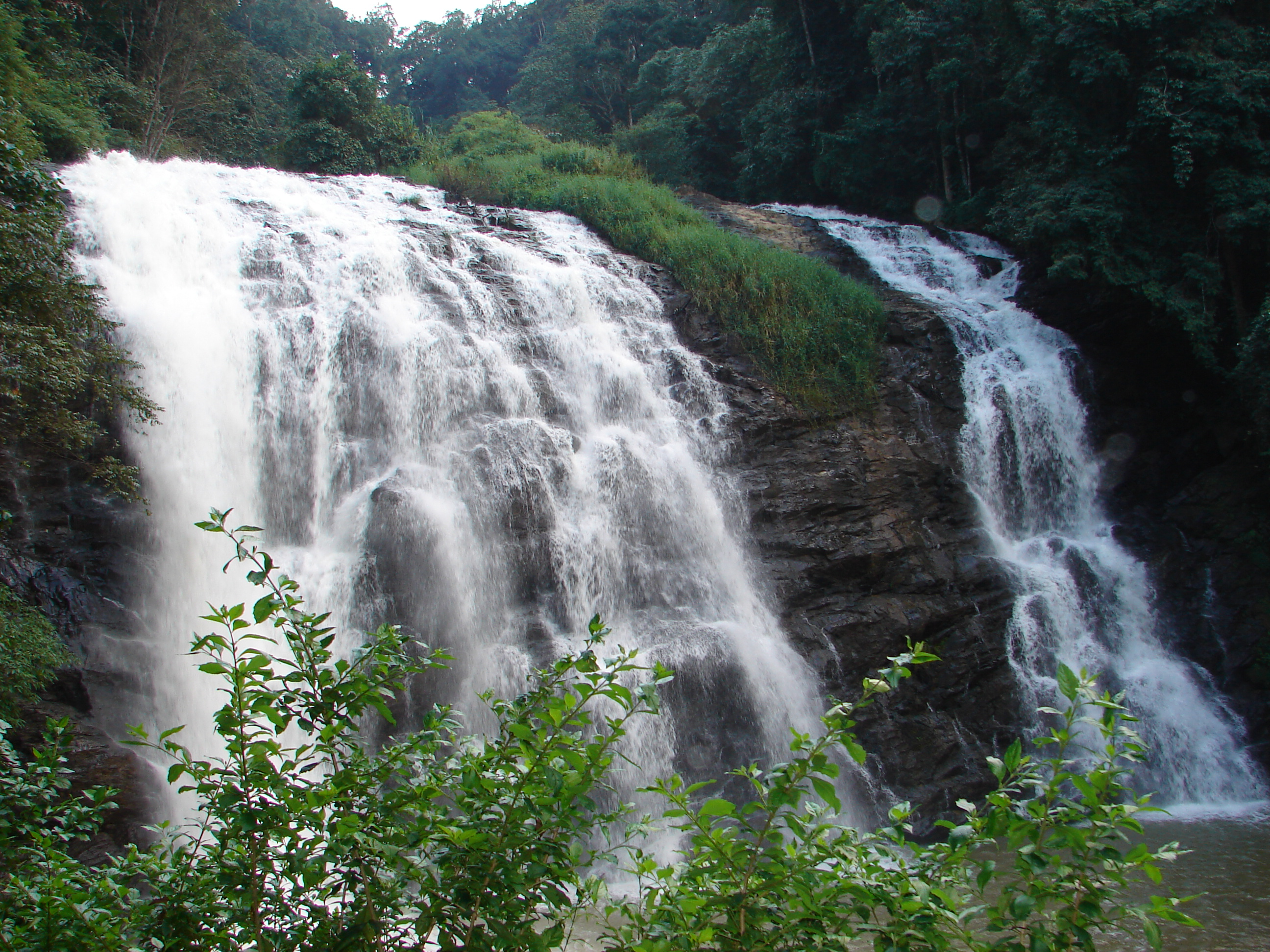 Photograph taken by Pradeep, The author grants use of the image under the GFDL.